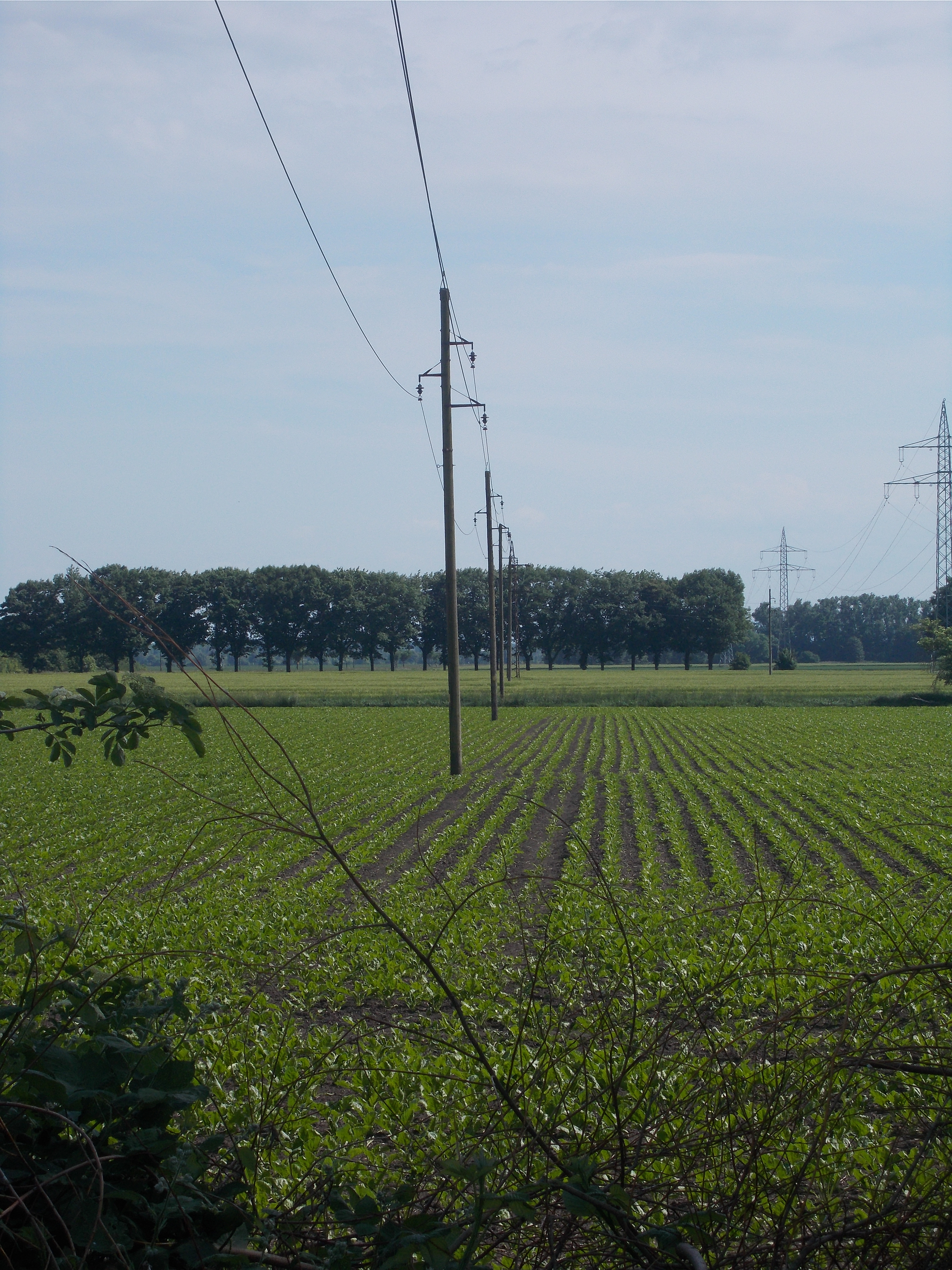 20 kV power line near Gleidingen substation, Germany; fields in Groß Gleidingen, Vechelde (front) and Salzgitter (background); view in southern direction